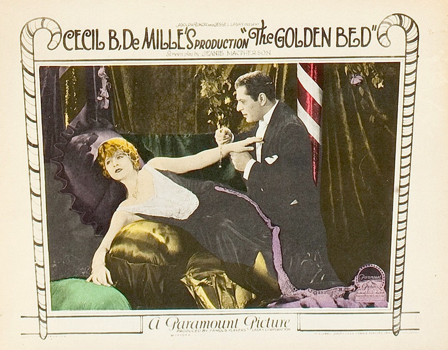 The Golden Bed is a silent 1925 American drama film directed by Cecil B. DeMille. This lobby card was printed pre 1978 without a copyright notice.